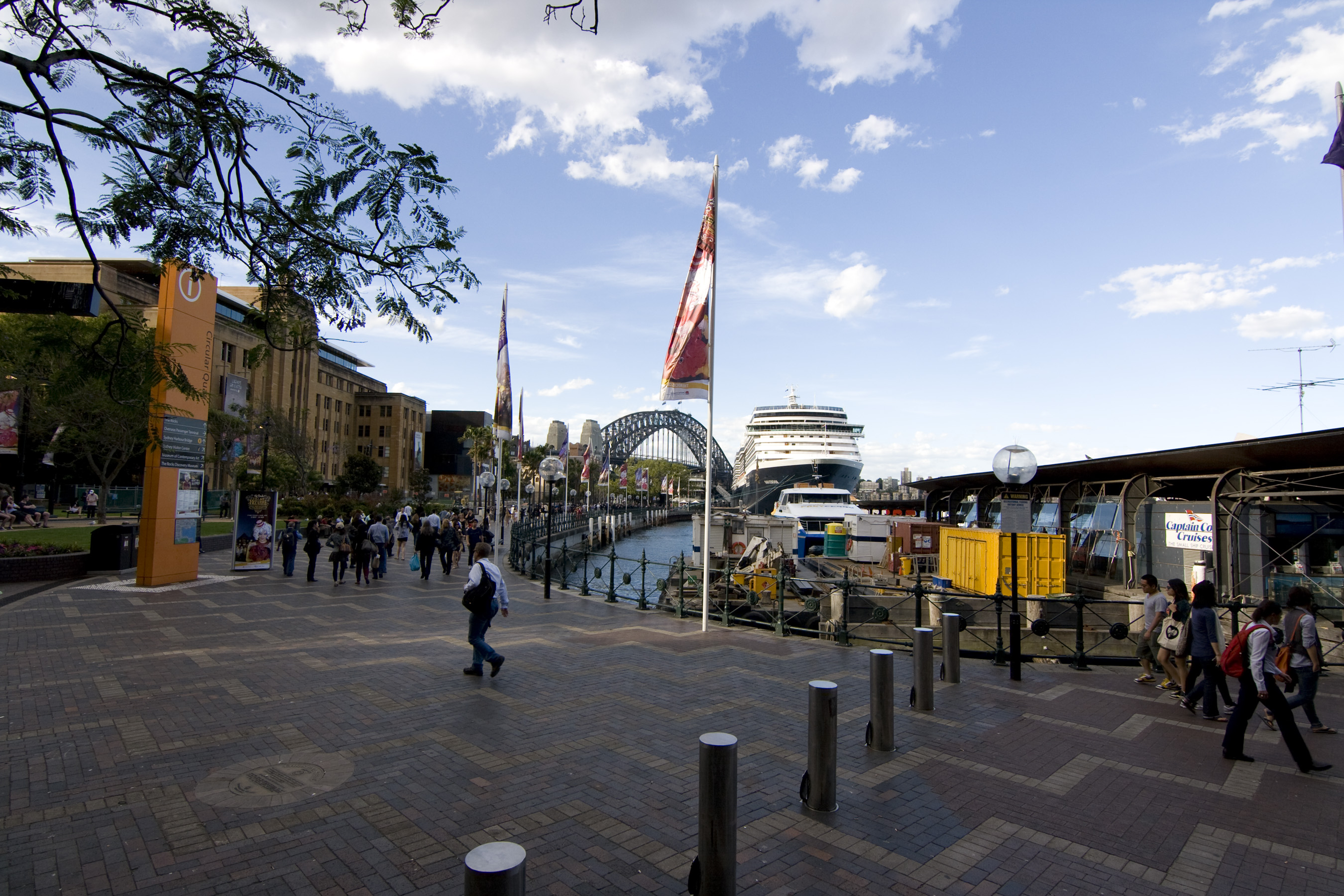 Circular Quay, New South Wales